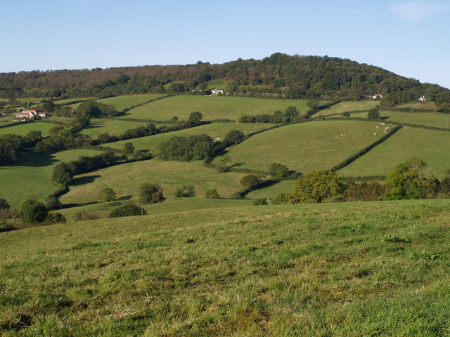 Lambert's Castle from near Marshwood